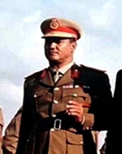 President of Sudan Gaafar Nimeiry